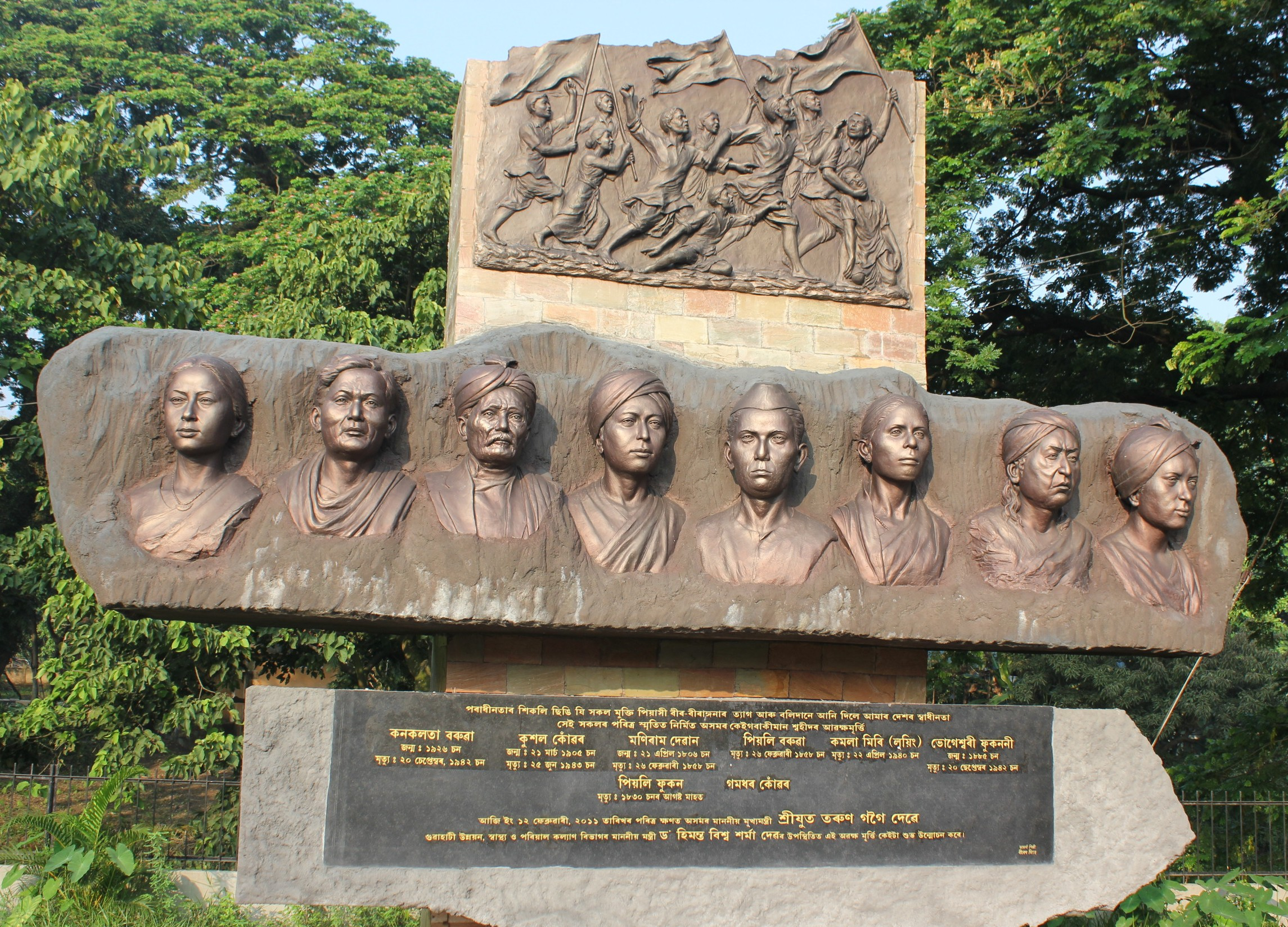 A sculpture of some martyres, Kanak Lata Barua, Kushal Konwar, Maniram Dewan, Piyoli Barua, Kamala Miri, Bhogeswari Phukononi and Gomdhor Konwar from Assam